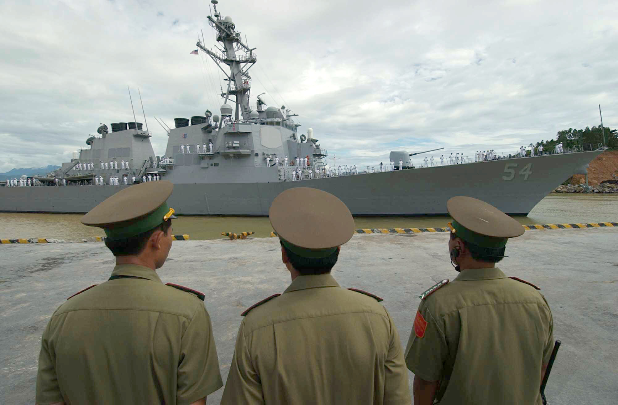 Da Nang, Vietnam (July 28, 2004) – Vietnamese military officials watch as USS Curtis Wilbur (DDG 54) prepares to moor in the Vietnamese port of Da Nang. The Arleigh Burke class guided missile destroyer is on scheduled port visit, and is the second U.S. Navy ship to visit Vietnam and the first to visit Da Nang since 1973. These visits symbolize the continuation of normalized relations between the United States and Vietnam. Curtis Wilbur is part of the Kitty Hawk Carrier Strike Group (CSG), the Navy’s only permanently forward deployed carrier strike group, currently operating from Yokosuka, Japan. U.S. Navy photo by Photographer’s Mate 2nd Timothy Smith (RELEASED)